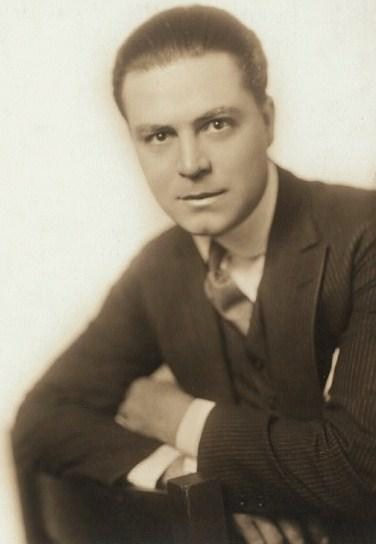 american stage & silent film actor Harrison Ford (1884-1957) - original image cropped (see source)